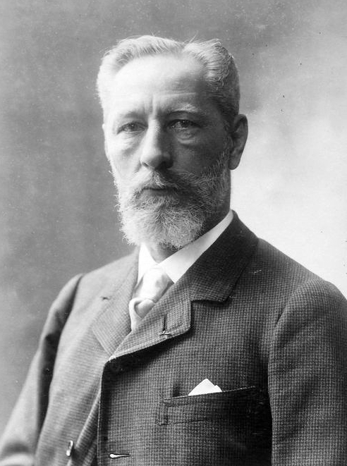 French diplomat, archaeologist and writer Eugène-Melchior de Vogüé (1848-1910) photographed by Nadar.